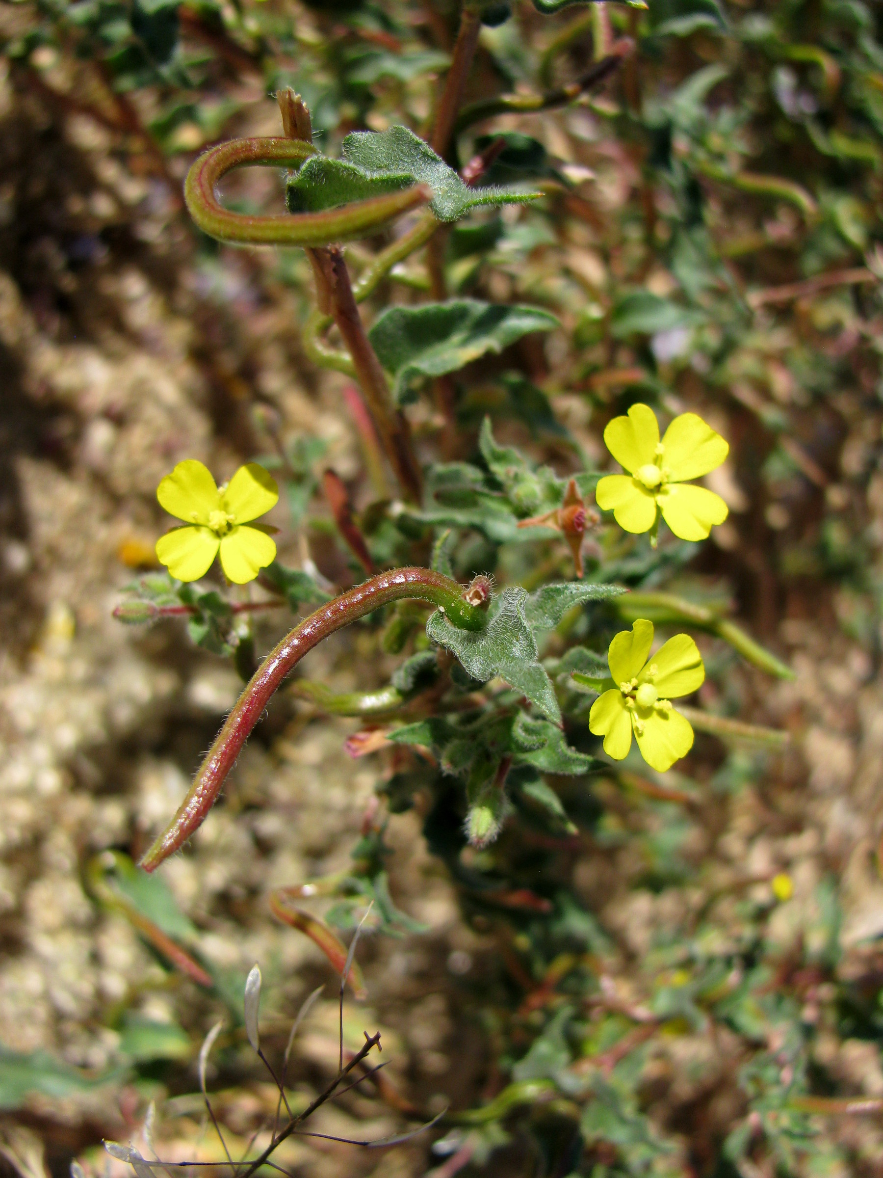 Camissonia pubens, as observed on roadside of Hwy 62 in Joshua Tree, CA, Photo by Jules Jardinier